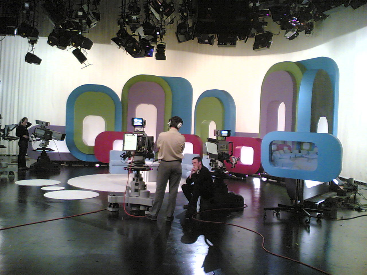 The television studio for the now defunct RTÉ Television programme, Big Bite.